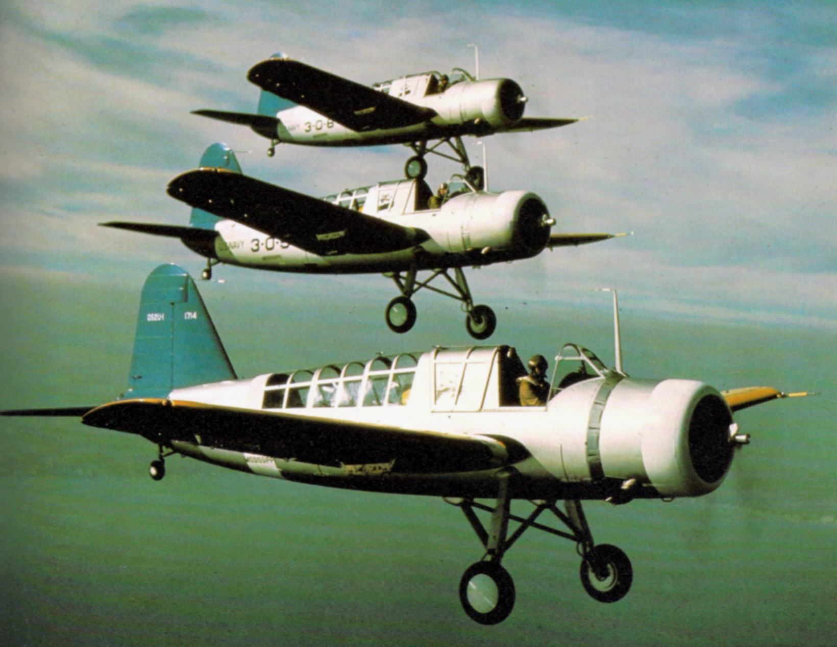 Three U.S. Navy Vought OS2U Kingfisher floatplanes (OS2U-1 BuNo 1714 an 1715 in front) from Observation Squadron VO-3, assigned to the battleship USS Mississippi (BB-41), in flight before the Second World War. The OS2U could be fitted with a conventional landing gear or with floats.